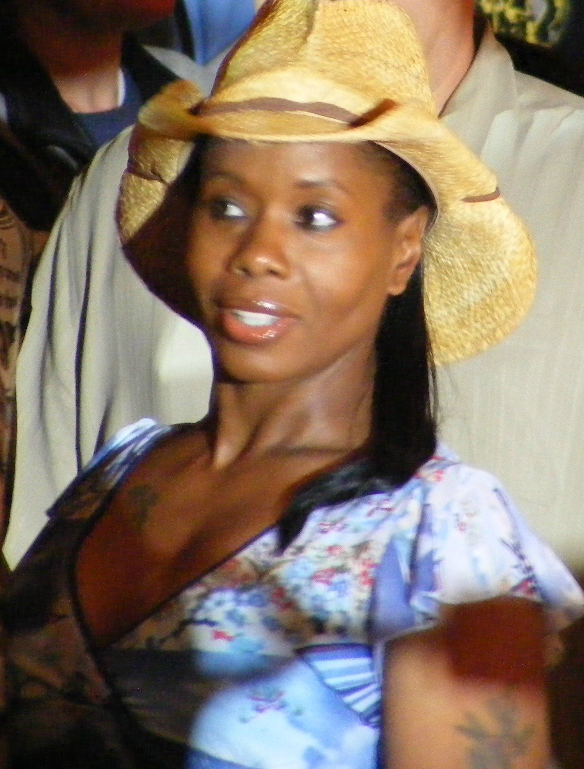 Former WWE superstar during an TNA event in May 9, 2008.